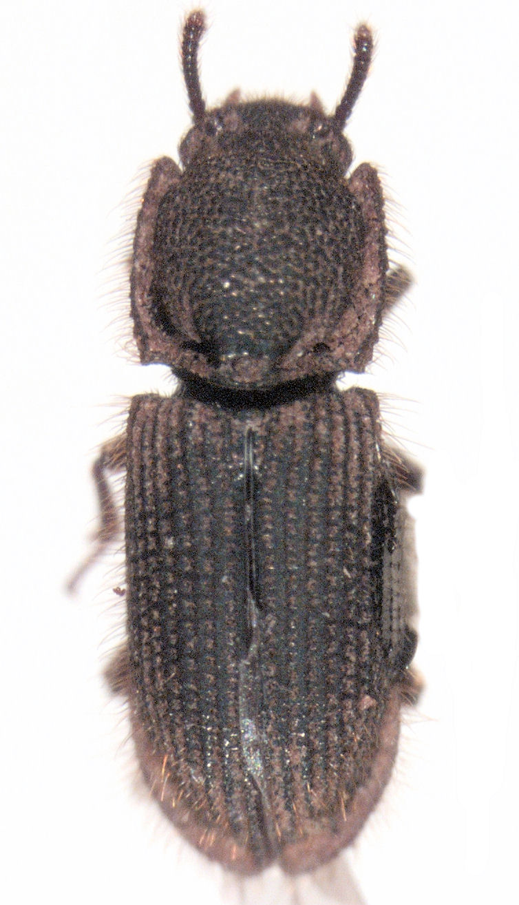 adult Pycnomerodes peregrinus. Huapai Scientific Reserve (malaise trap), Auckland, New Zealand, 25 Nov-22 Dec 2009, D. Ward.